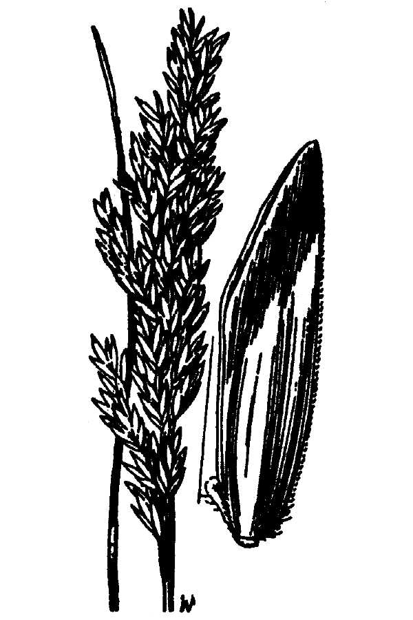 Poa unilateralis from Hitchcock, A.S. (rev. A. Chase). 1950. Manual of the grasses of the United States. USDA Miscellaneous Publication No. 200. Washington, DC. 1950.